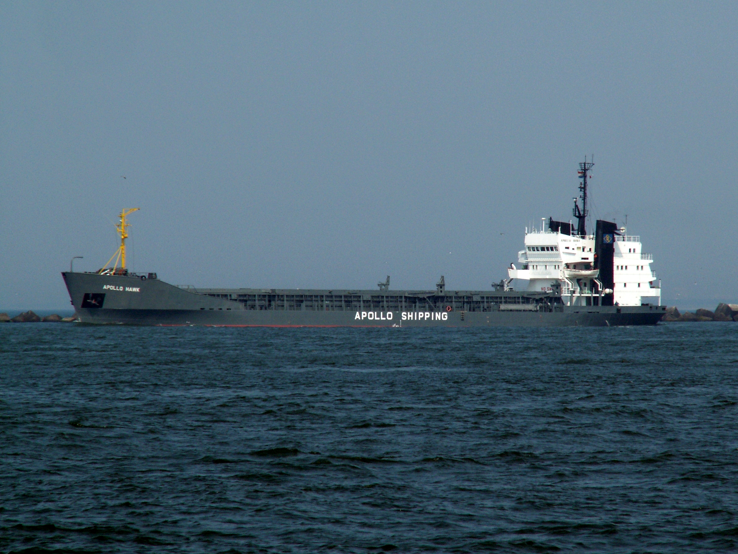 Photographed at the Port of rotterdam, The Netherlands.